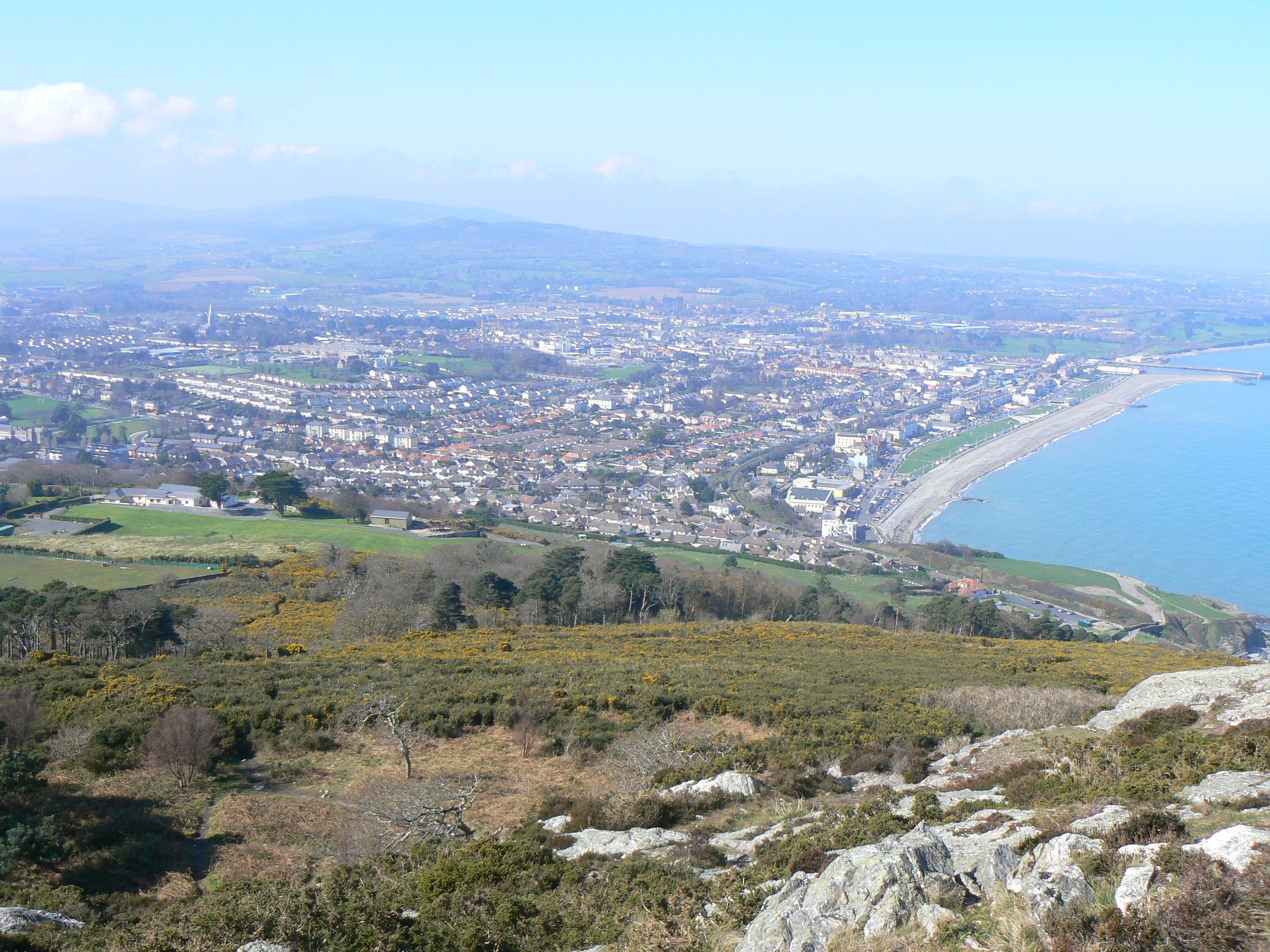 The Irish town of Bray from the mountain south of it. Photo by Skvattram 2007-03-24.